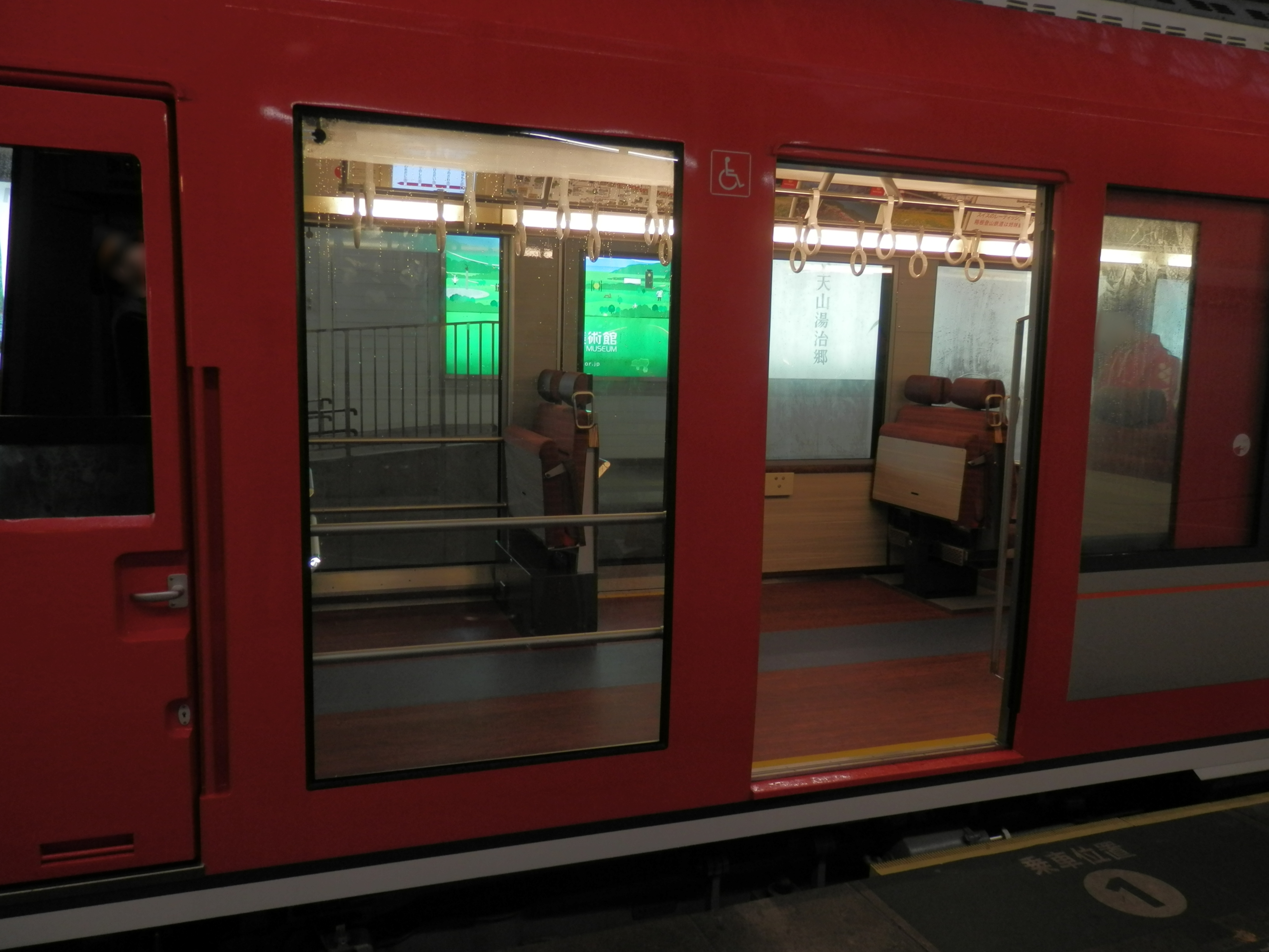 Full-height window of Hakone Tozan Railway series 3000 "Allegra" EMU car